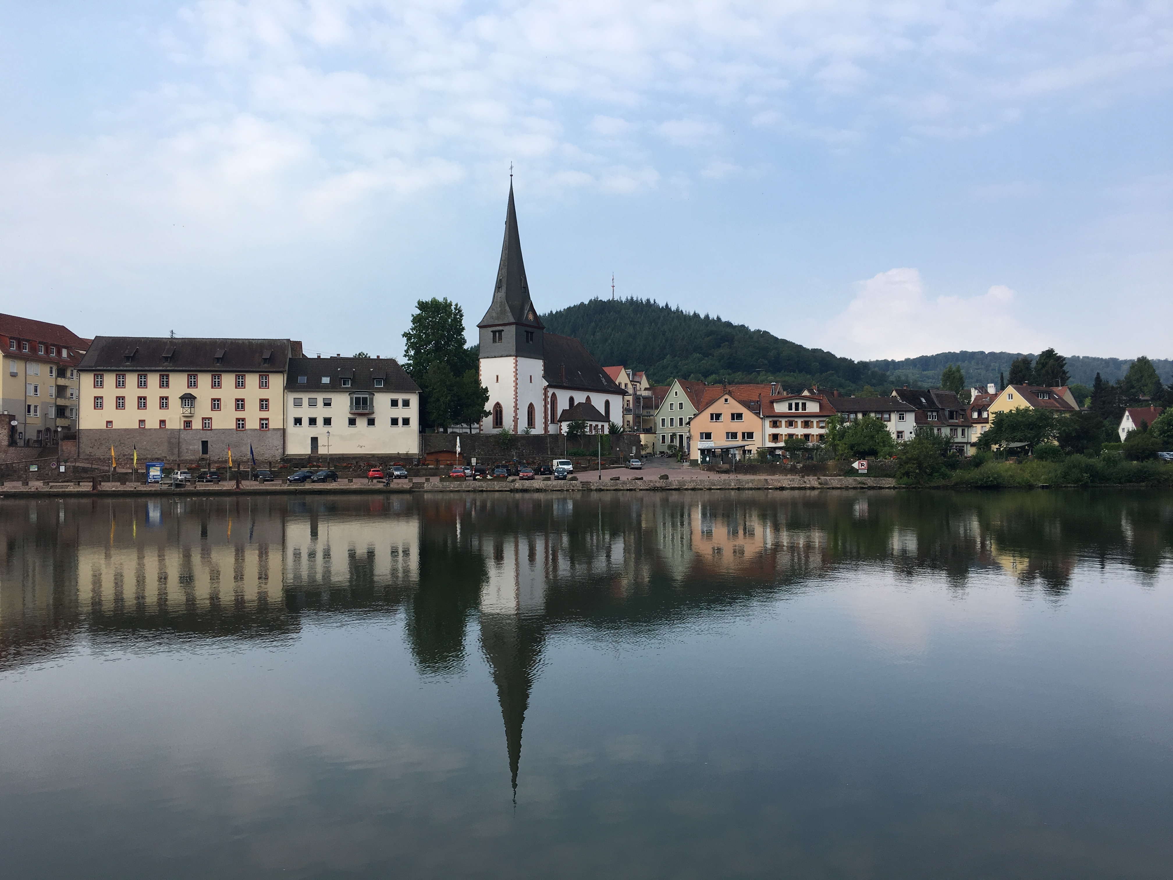 Neckargemünd Altstadt